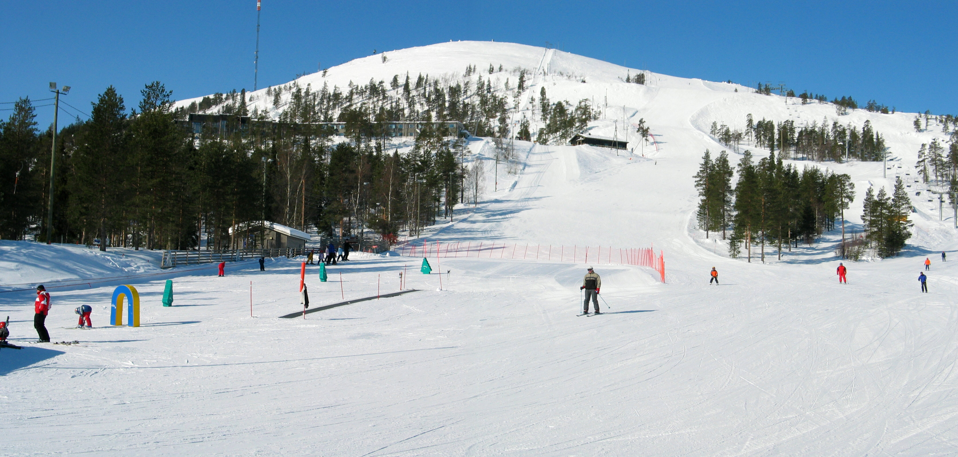 Skislopes at Pyhätunturi in Pelkosenniemi, Lapland, Finland